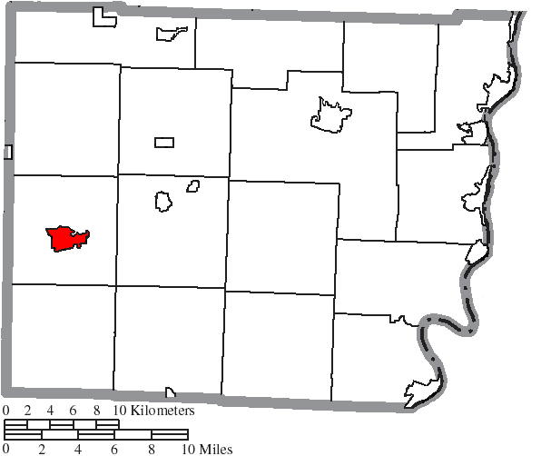 Map of the municipal and township boundaries of Belmont County, Ohio, United States, as of the 2000 census, with the location of the village of Barnesville highlighted. Township borders are shown only in unincorporated areas in order to differentiate incorporated and unincorporated areas more clearly.